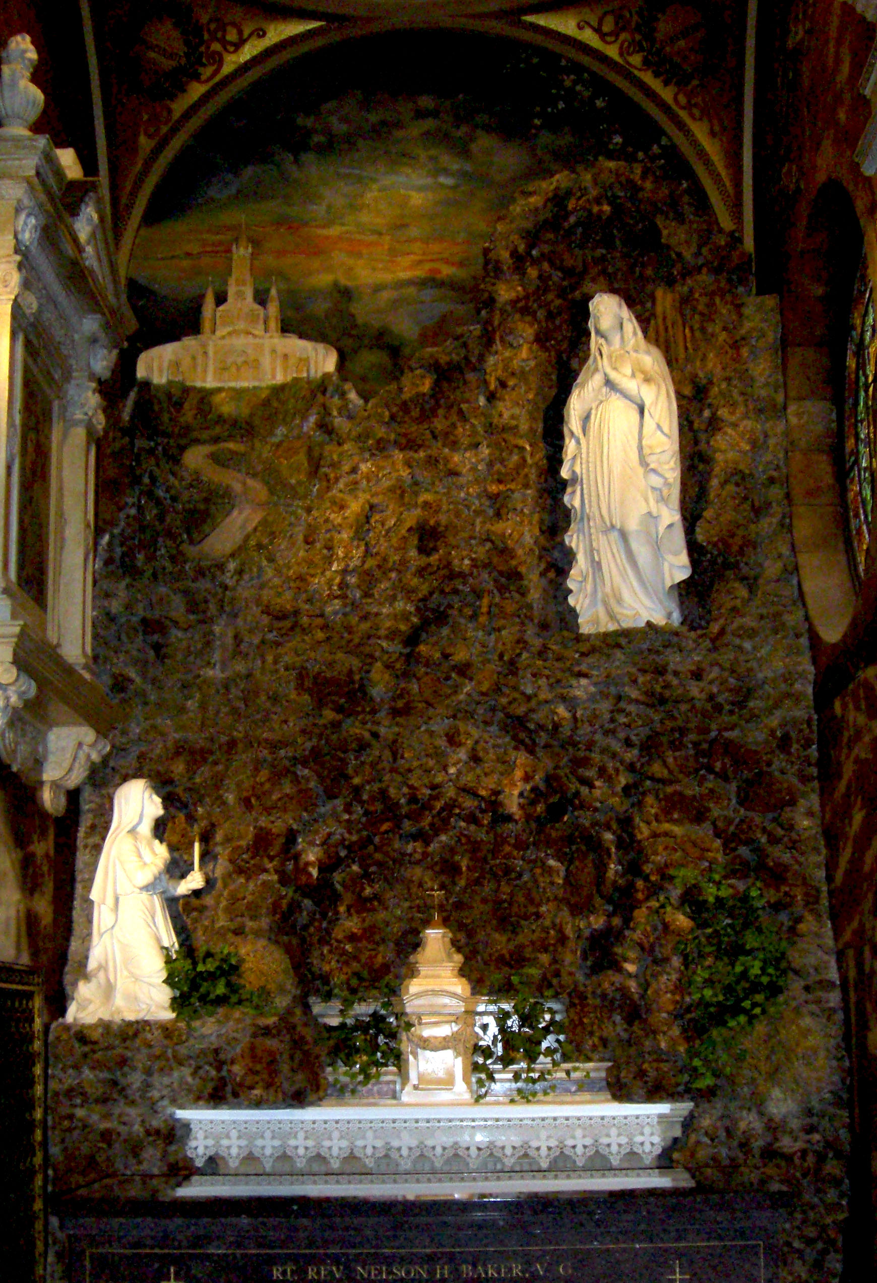 The Grotto Shrine to Our Lady of Lourdes in Our Lady of Victory Basilica in Lackawanna, New York. The remains of Father Nelson Baker were placed in a sarcophagus within the grotto on March 11, 1999.